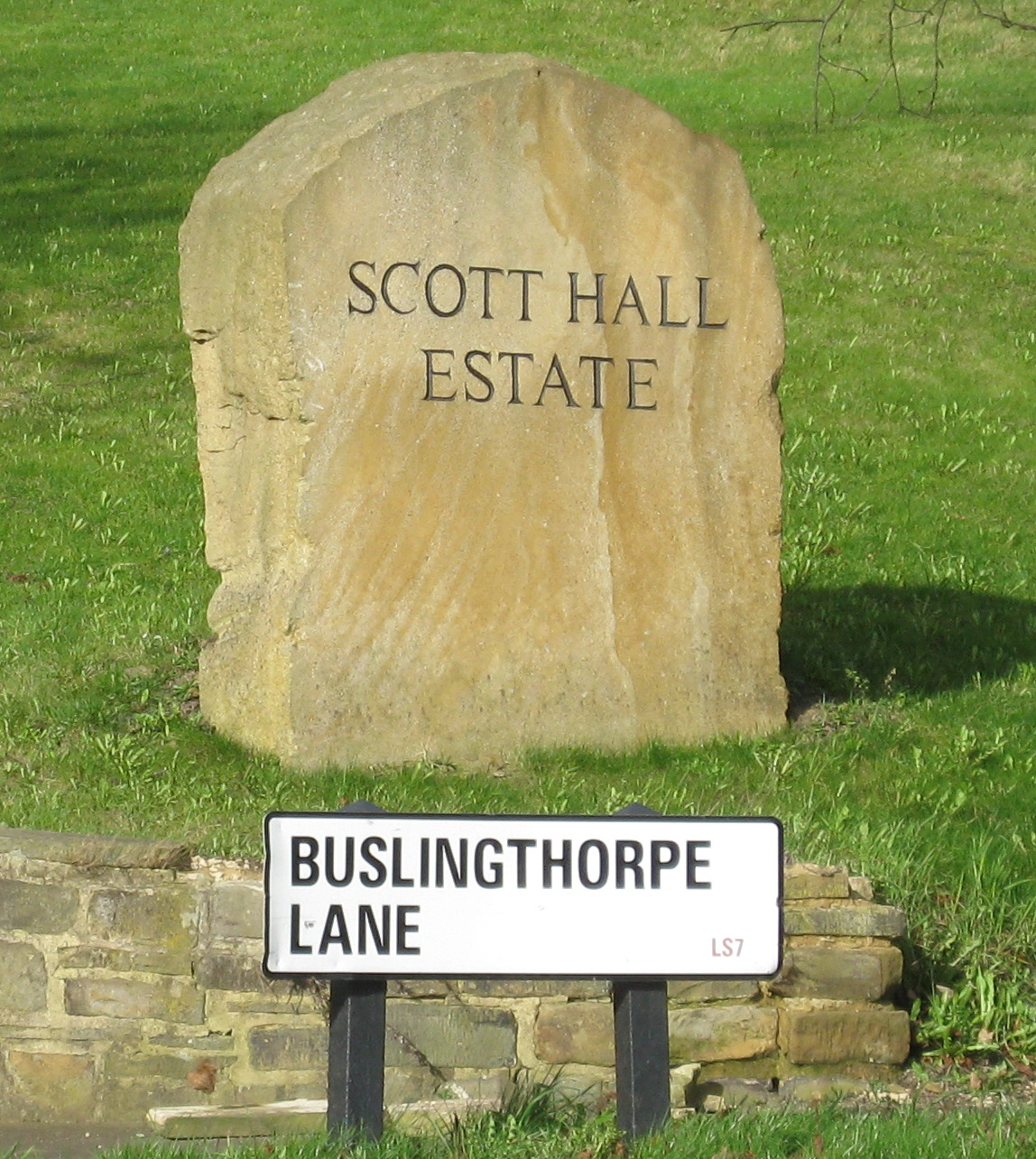 Boundary Marker for the Scott Hall estate at the southern end of Scott Hall Road, by the junction with Buslingthorpe Lane.